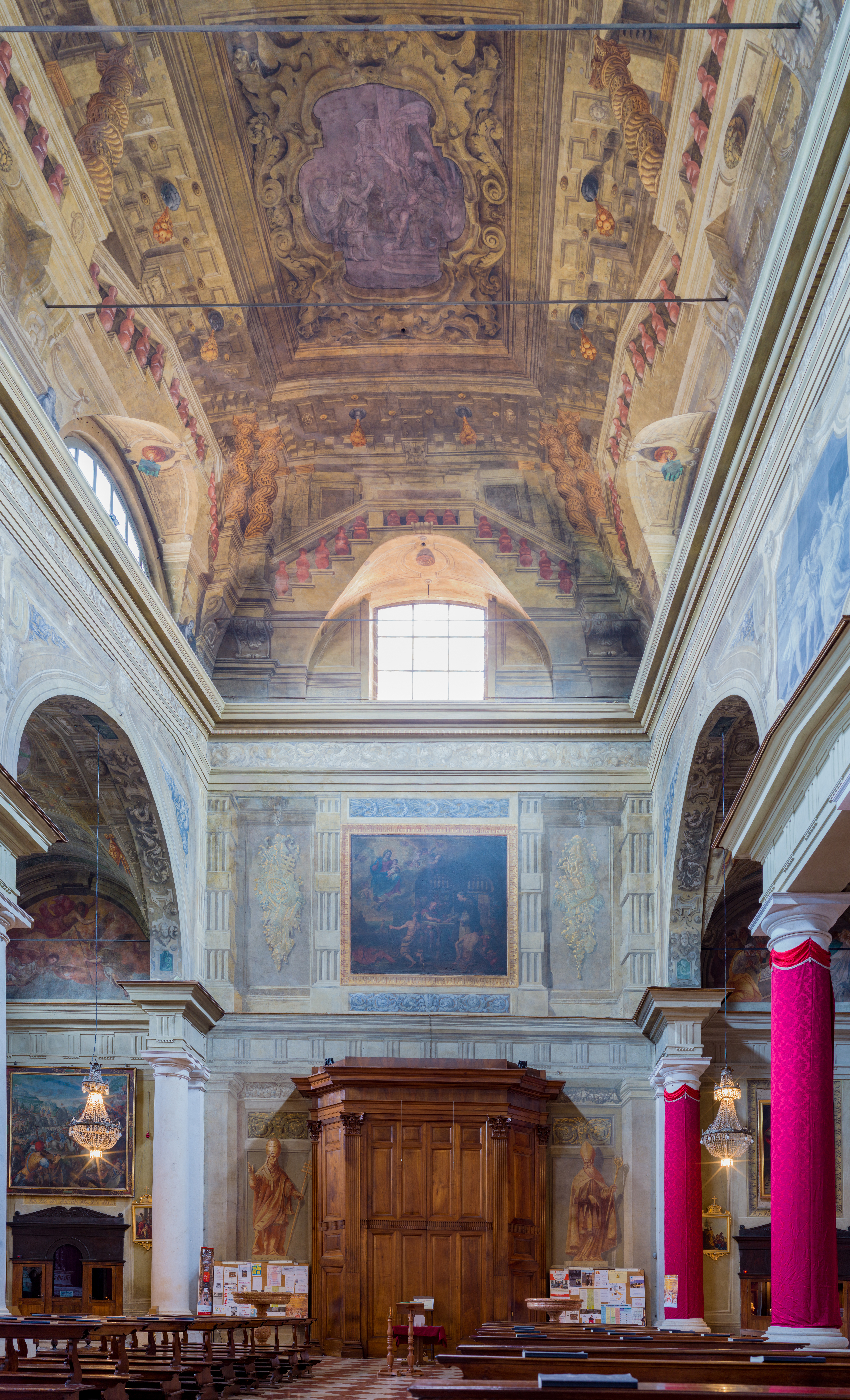 Counterfacade and frescos of the vault in the main nave of the the Santi Faustino e Giovita church in Brescia - Trompe-l'œil by Tommaso Sandrino.